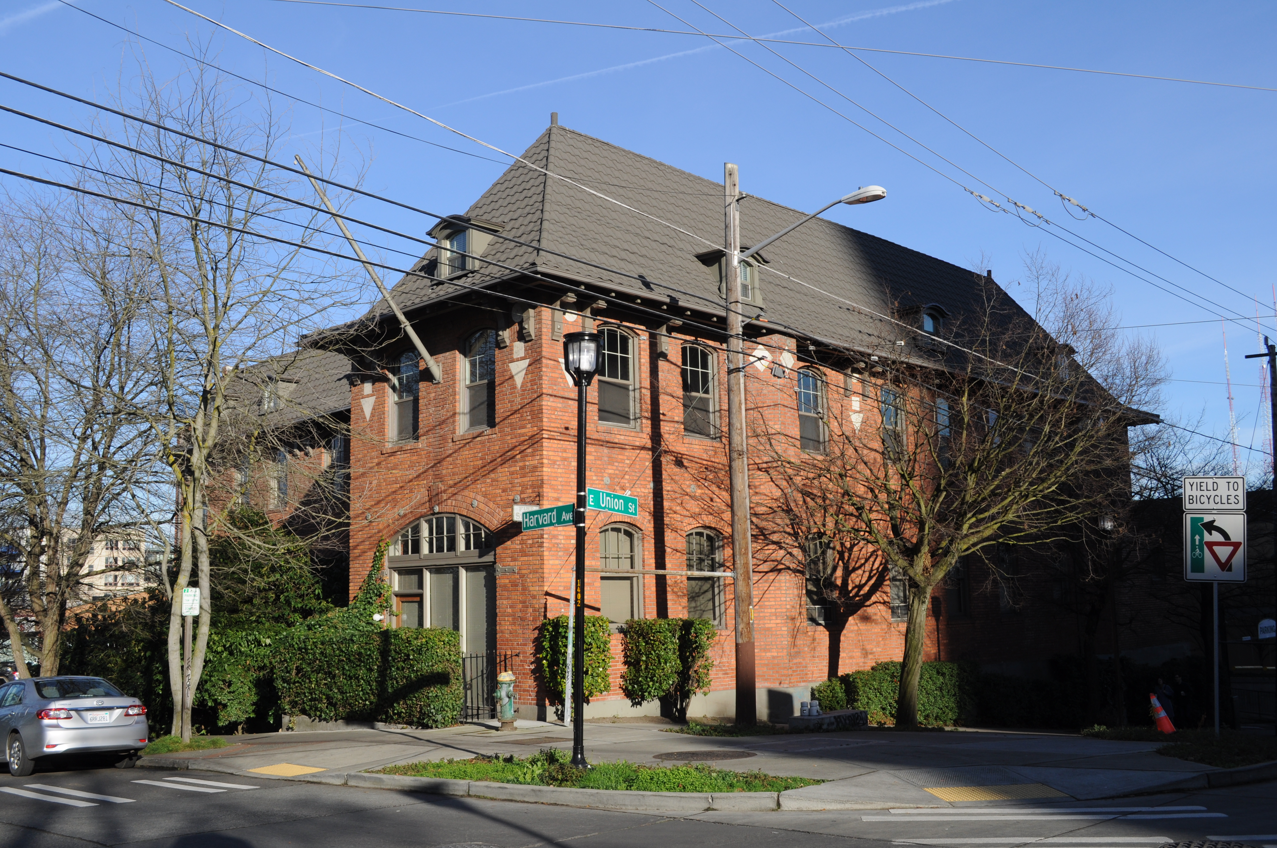 The former Fire Station No. 25, Seattle, Washington (roughly on the border between Capitol Hill and First Hill) now converted to housing. Listed on the National Register of Historic Places.